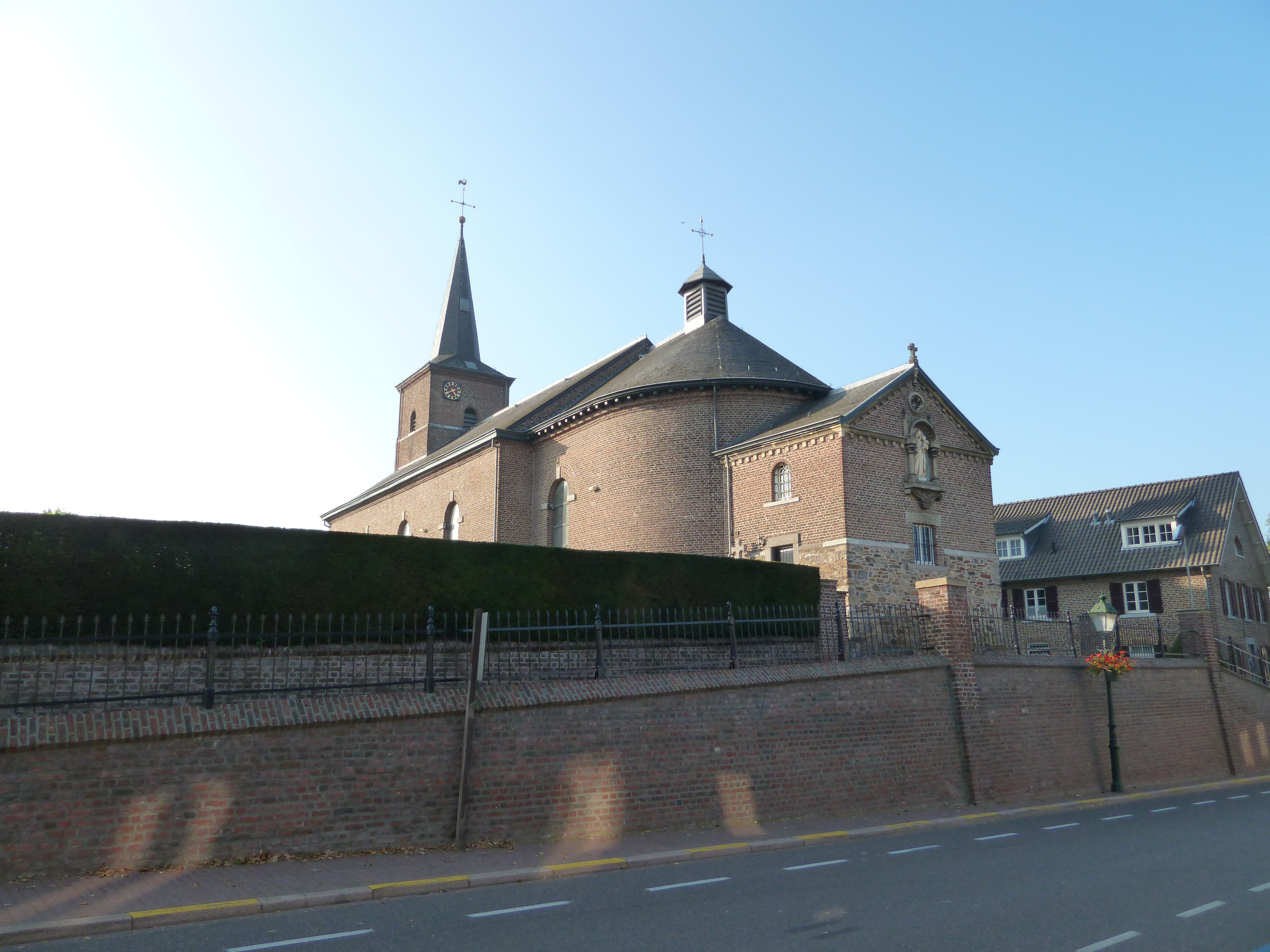 Church of Epen, Limburg, the Netherlands